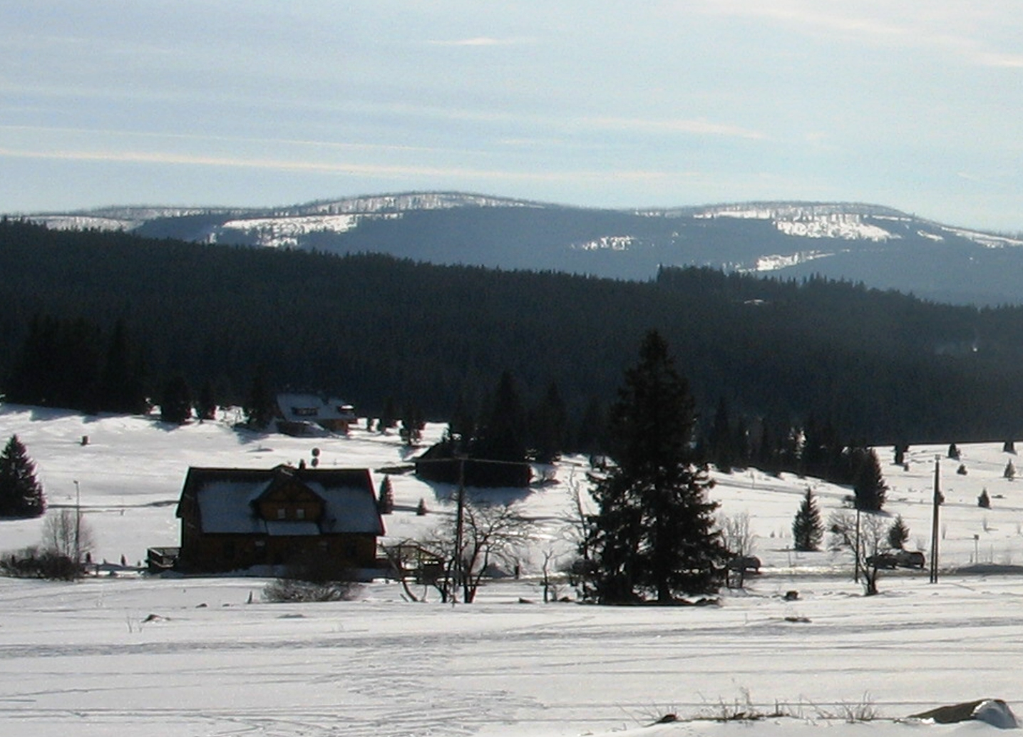 Špičník (1350 m) and Plattenhausenriegel (1376 m) in Šumava Mts. from Filipova Huť (Czech Republic)